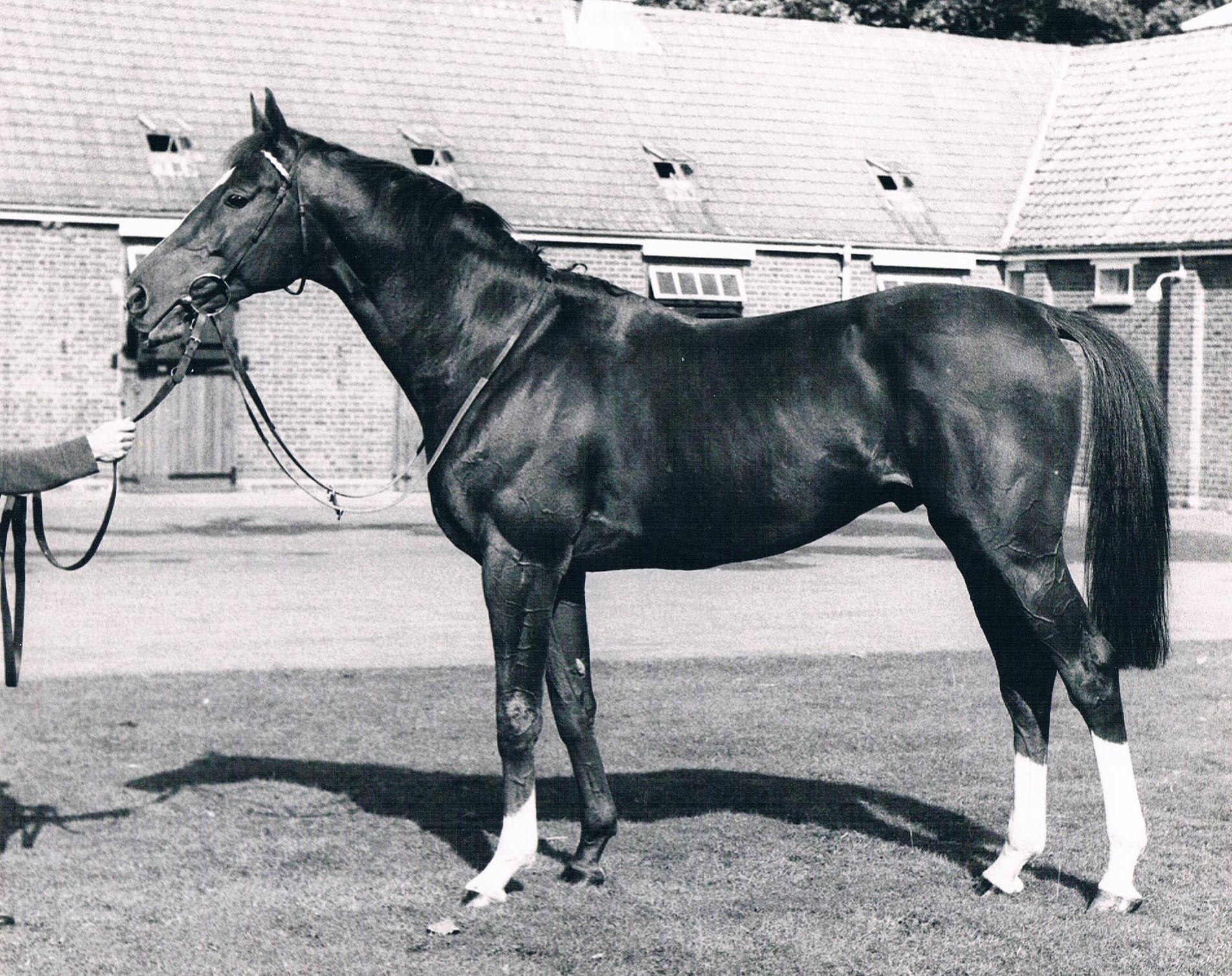 Le Moss